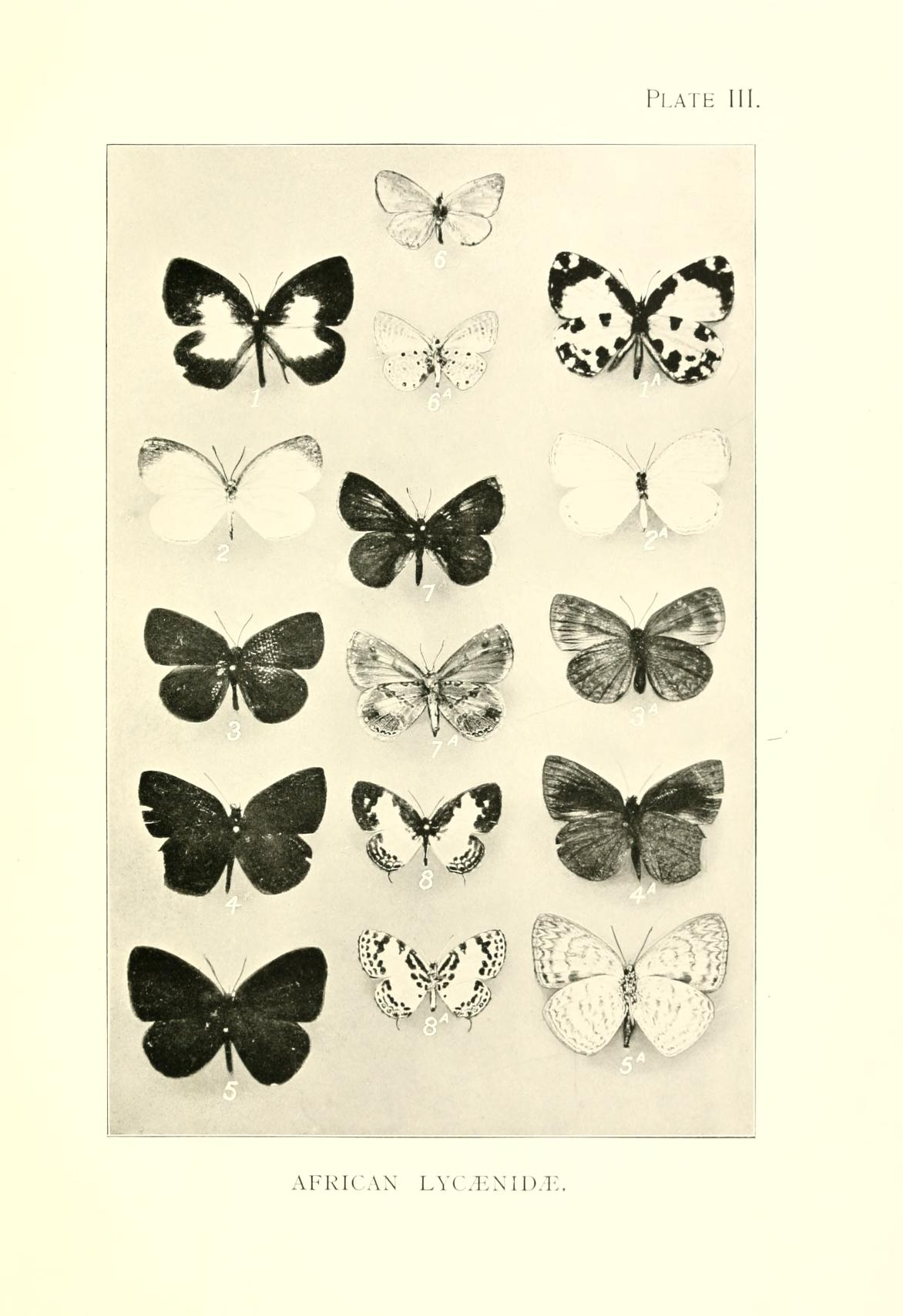 Druce, H. H. 1910 Illustrations of African Lycaenidae : being photographic representations of typespecimens contained in the Imperial Zooloical Museum at Berlin. London, H.H. Druce. PLATE III Fig 1, 1a Liptena margarita Suffert. Iris xvii, p. 51, 1904. Lolodorf. An example of the well-known L. libyssa Hew. Exot. Butt. Pentila and Liptena, t. 1, f. 5. 6 (1866), and must be sunk as a synonym.[=Falcuna margarita (Suffert, 1904) Poritiinae] Fig. 2, 2a.Liptena augusta Suffert. Iris xvii, p. 50, 1904. Cameroons.Described and well figured In- M. Mabille, Anns. Ent. Soc. Fr. ser. 6,v. 10, p. 23, pi. 2, f. 2 (1890) under the name alluaudi, which name of course takes precedence.[= Liptena augusta Suffert, 1904 Poritiinae] Fig. 3, 3a Epitola mus Suffert. Iris xvii, p. 50, 1904. Suffert his xvii, p. 53. Cameroons [= Epitola catuna Kirby, 1890 Cephetola catuna (Kirby, 1890) Poritiinae] Fig. 4, 4a. Epitola mercedes Suffert. Iris xvii, p. 53, 1904. Cameroons.= [Cephetola mercedes (Suffert, 1904) Poritiinae] Fig. 5, 5a Epitola concepcion Suffert. Iris xvii, p. 54, 1904. Cameroons.[= Geritola concepcion (Suffert, 1904) Poritiinae] Fig. 6, 6a Cupido soalalicus Karsch. Ent. Nachr, xxvi, 1900, p. 369. West Madagascar.Appears to be closely allied to Azantis jesous Guer, as stated by Dr. Karsch. [= Azanus soalalicus Karsch,1900 Polyommatinae] Fig. 7, 7a Lachnocnema brimo Karsch. B.E.Z. 38, p. 217 (1893). Bismarkburg.[Lachnocnema brimomKarsch, 1893 Miletinae] Fig. 8, 8a Cupido kontu Karsch. B.E.Z. 38, p. 227 (1893). Bismarkburg.Treated by Professor Aurivilius as a variety of C. (Castalius) carana Hew.Exot Butt,, Lyc. t. if 6 (1876) [=Tuxentius carana kontu Polyommatinae] (Karsch, 1893)